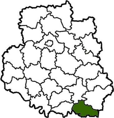 Chechelnyskyi-Raion map